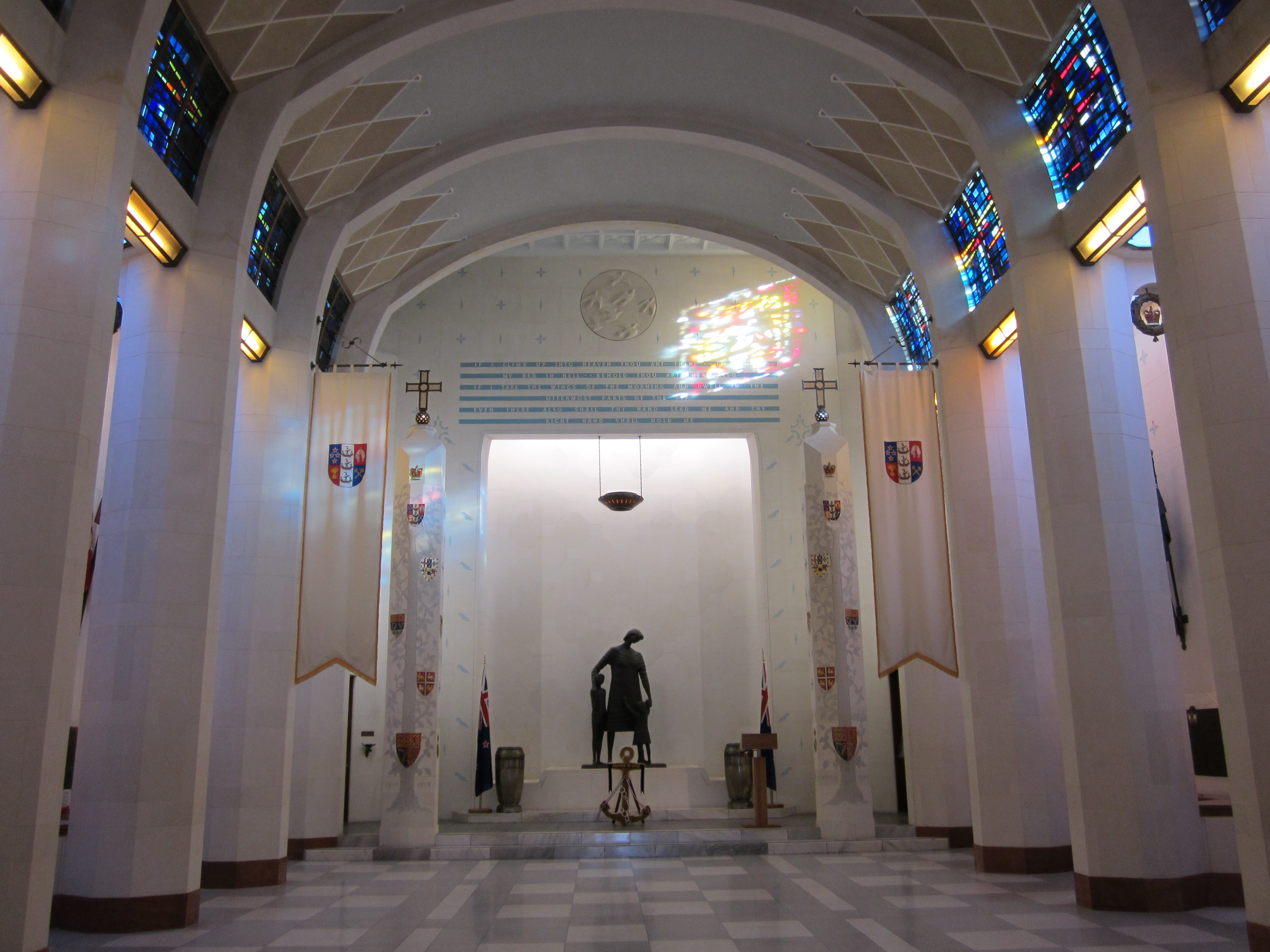 The interior of the National War Memorial as of June 2012